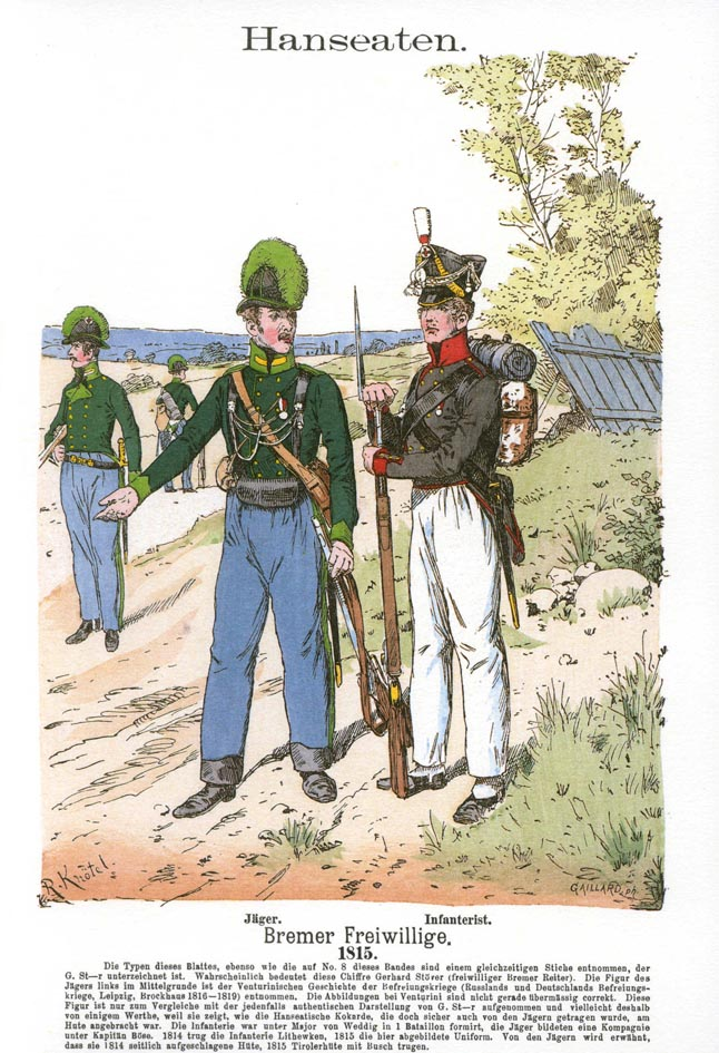 Hanseaten. Bremer Freiwillige. 1815